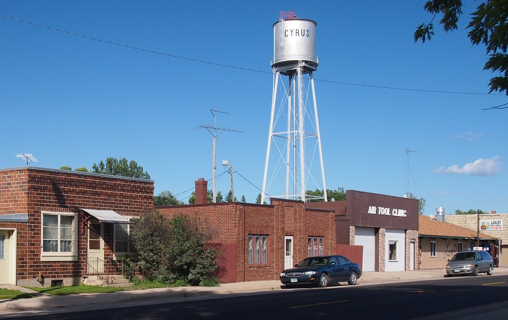 Cyrus, Minnesota, from State Highway 28